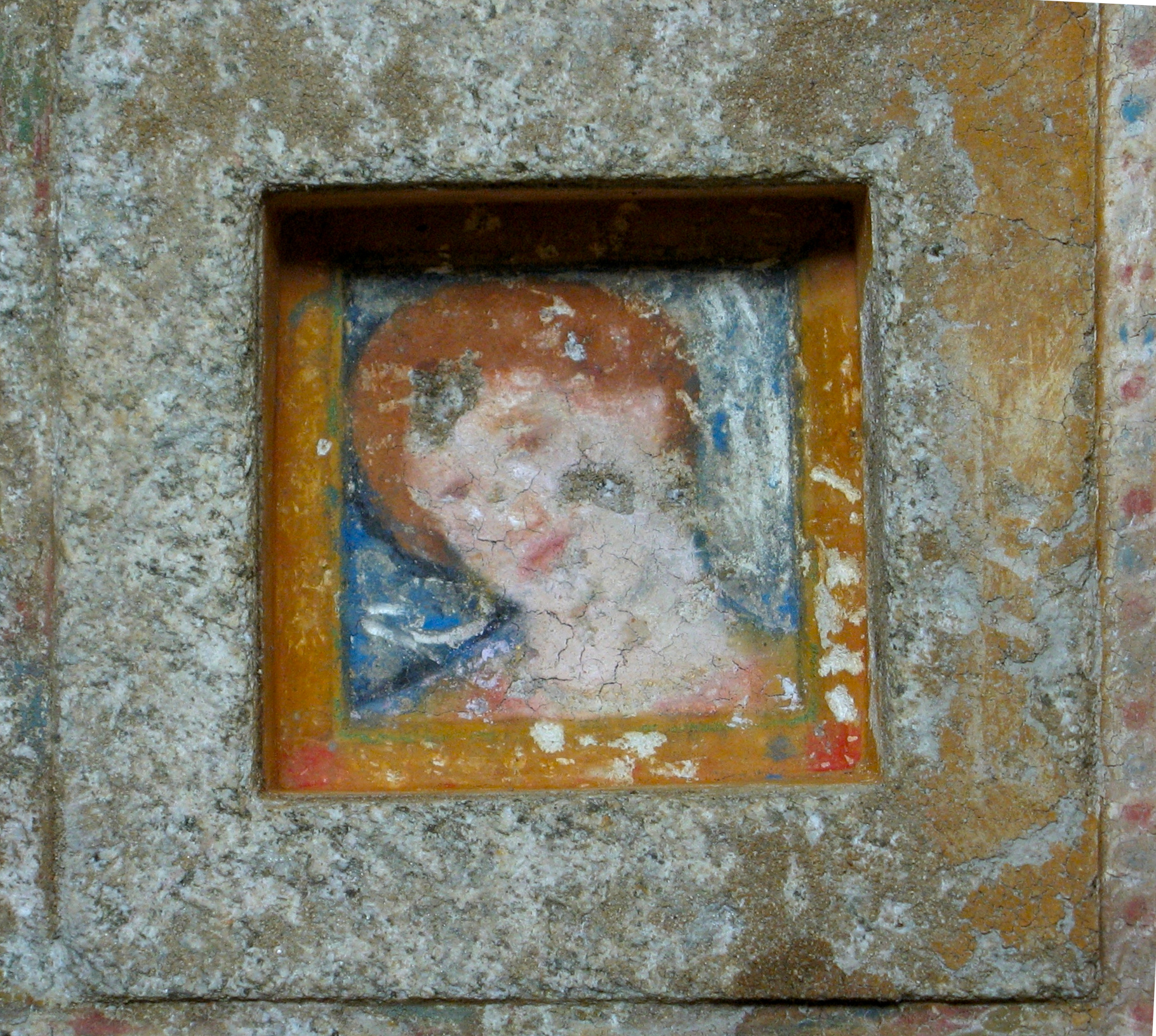 A fresco of a noble woman with golden necklace and earrings on the ceiling of the main chamber in the Ostrusha Mound near Kazanlak, Bulgaria.